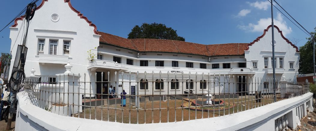 Aspinwall House - panoramic view